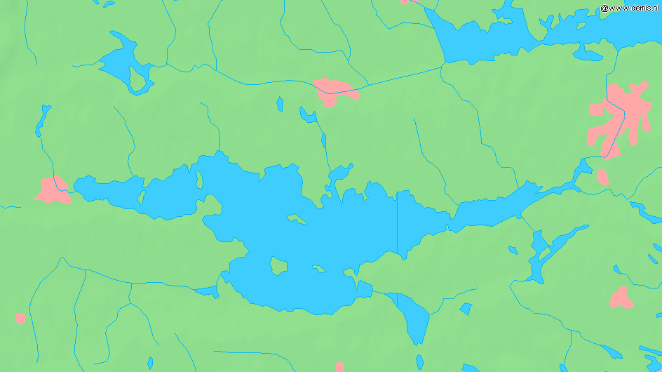 Lake Hjälmaren in Sweden. Bounding box West 15.1°, South 59.07°, East 16.6°, North 59.5°. Center at 59°17′06″N 15°51′00″E / 59.28500°N 15.85000°E.